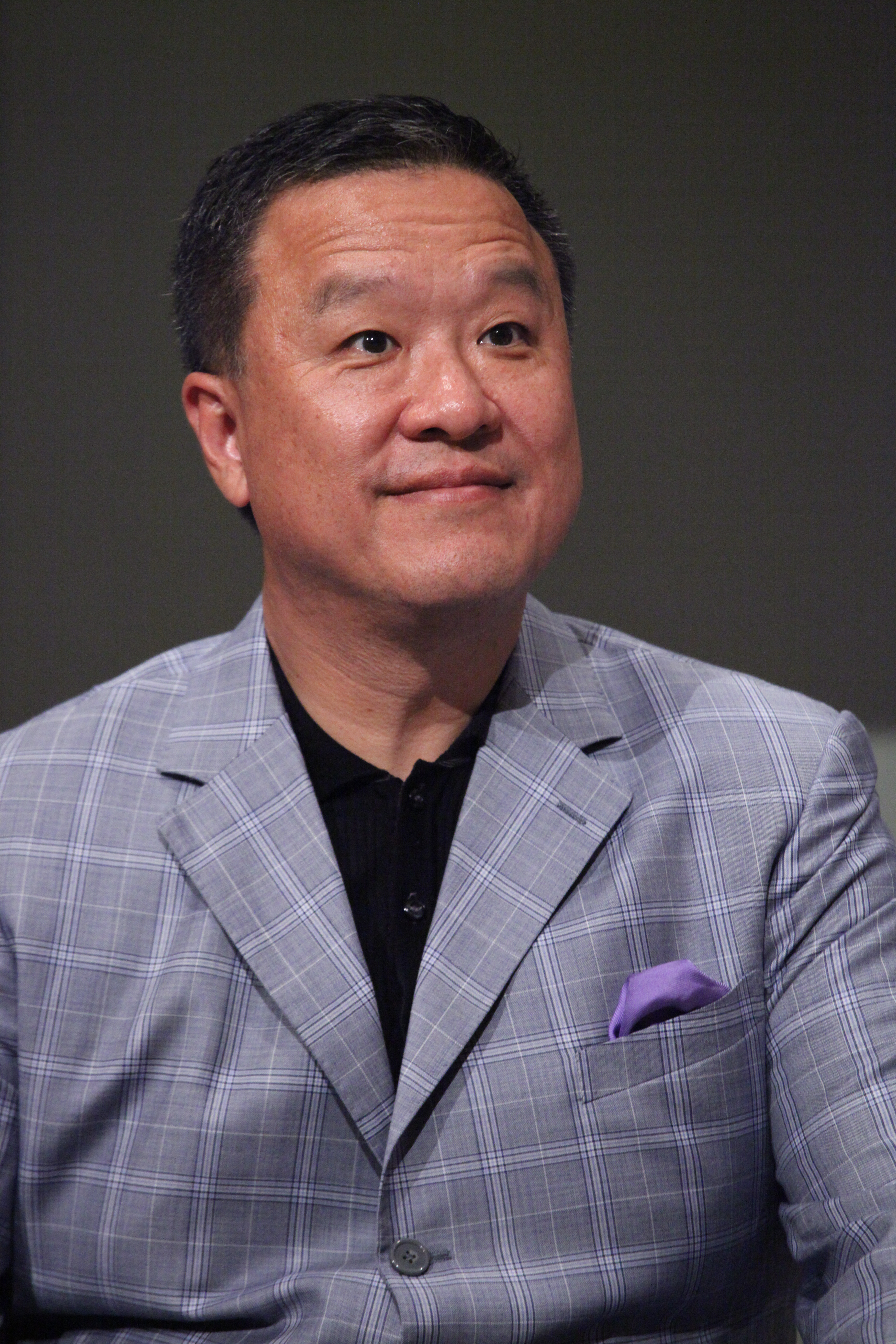 Cheung Chun yuen at CY Book Launching